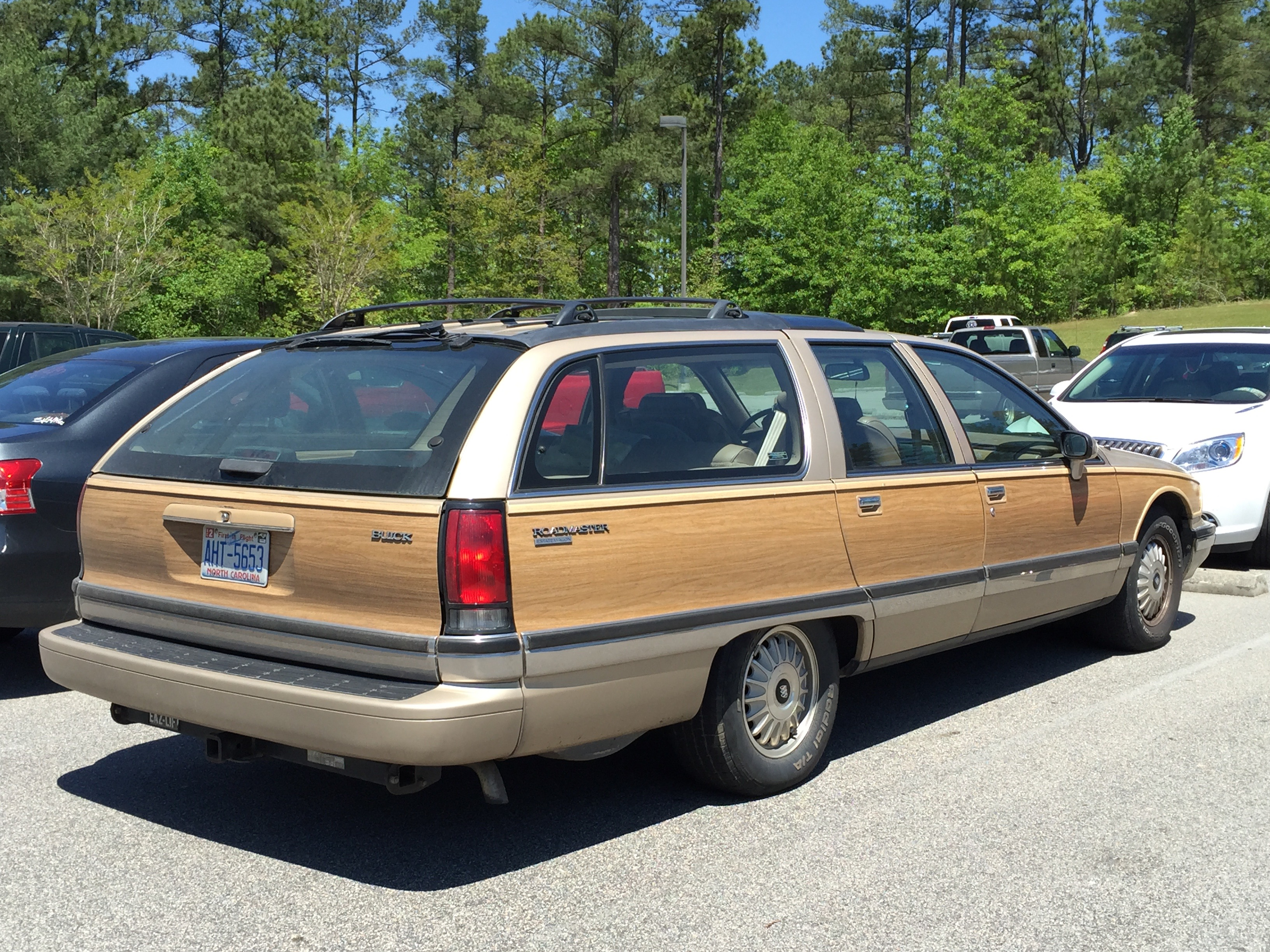 Buick Roadmaster Estate, a full-size station wagon in the generation that was built from 1991 to 1996 model years. Picture taken in North Carolina.